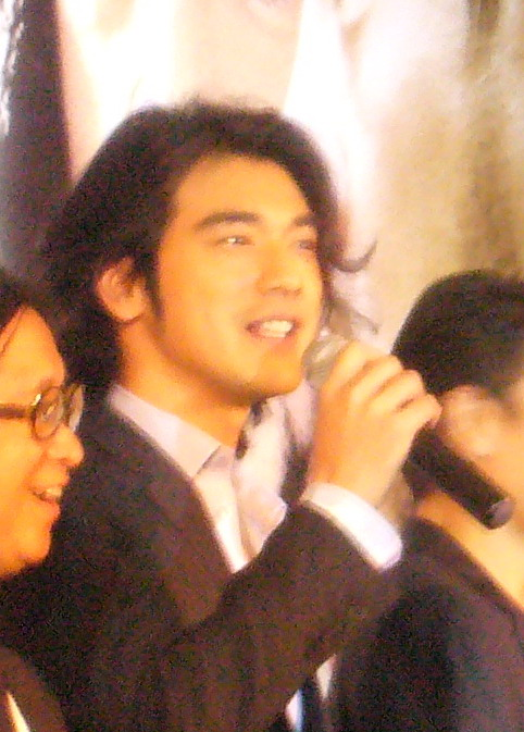 Takeshi Kaneshiro at the preview of the film The Warlords at SF World Cinema, CentralWorld, Bangkok.